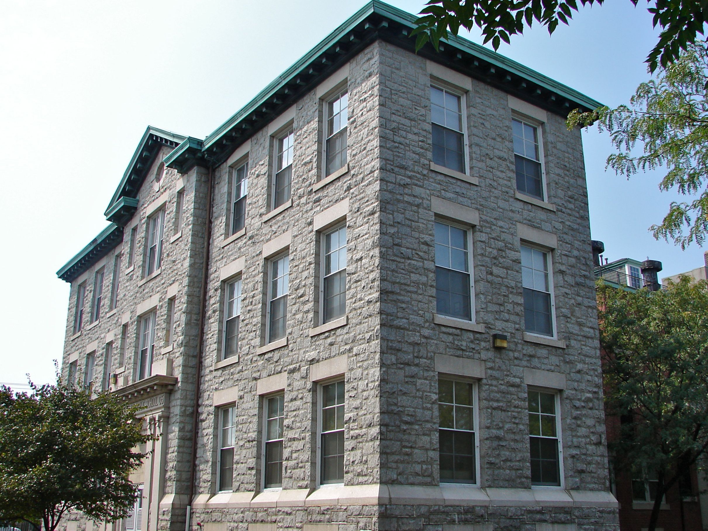 Thomas Dunlap School in Philadelphia on the NRHP since December 4, 1986. At 5031 Race Street in the Haddington neighborhood of West Philly.